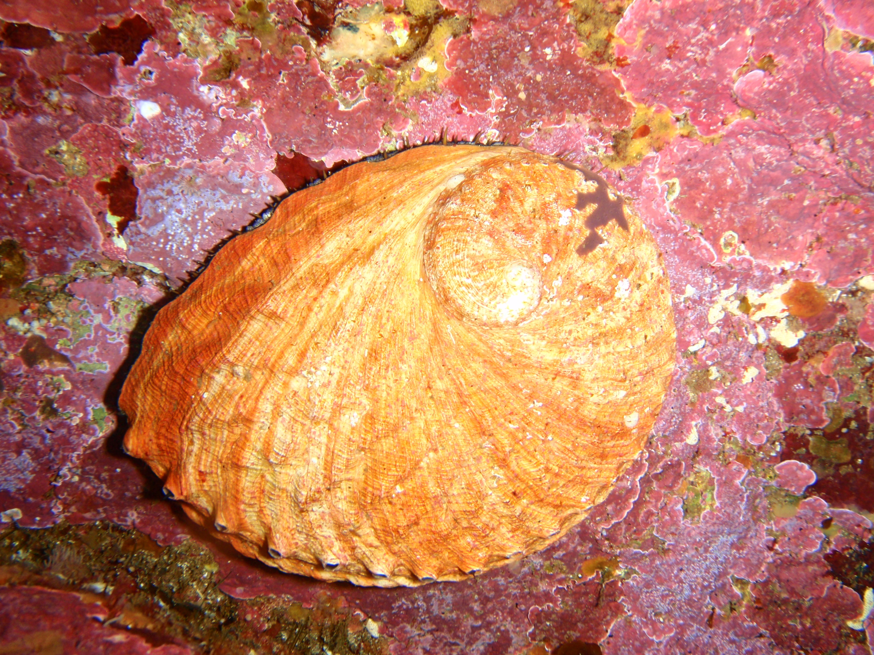 Blacklip abalone Haliotis rubra at Mistaken Cape, Maria Island, Tasmania